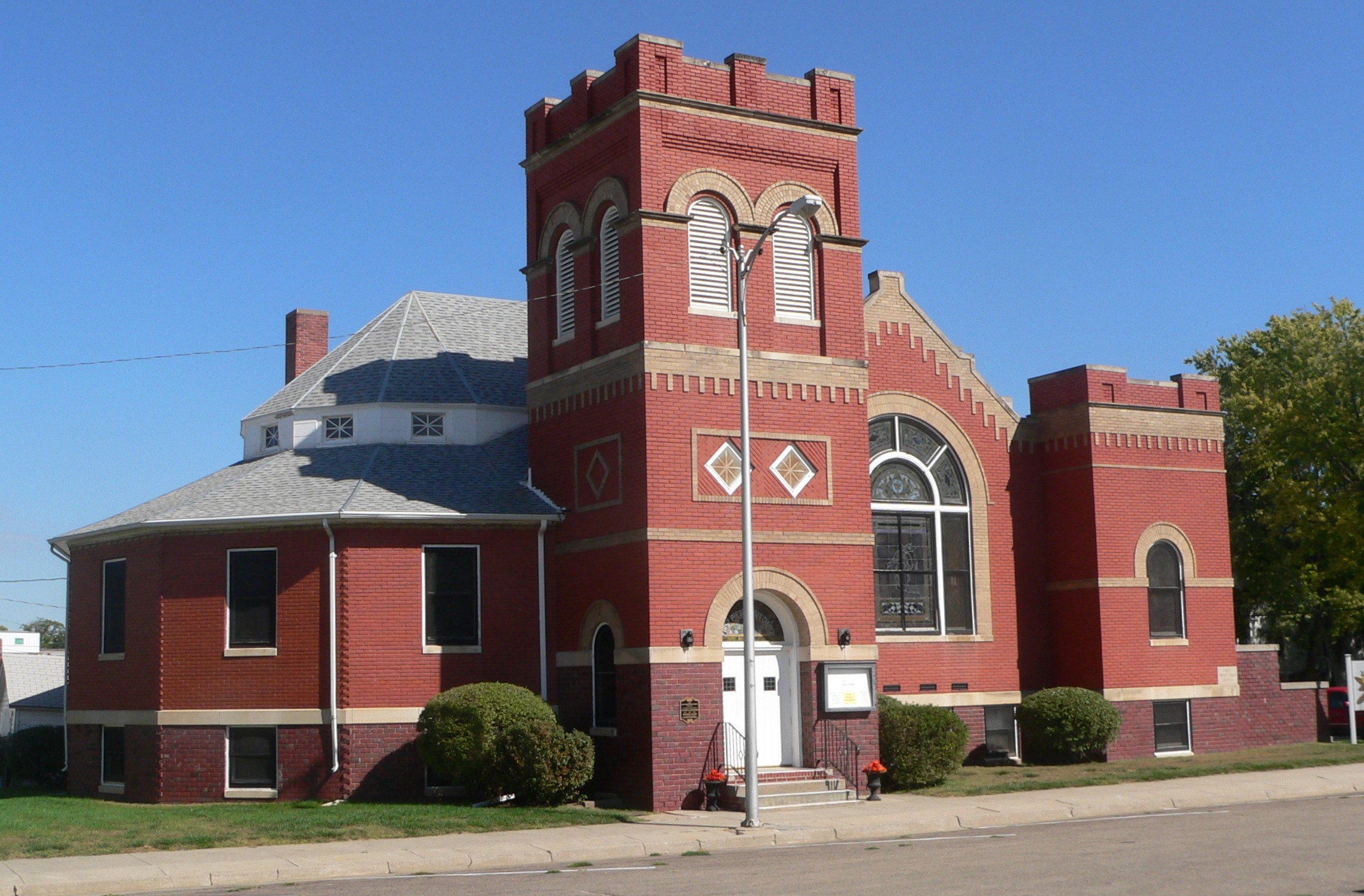 First United Presbyterian Church, now Historic Presbyterian Center, in Madison, Nebraska; seen from the southwest.